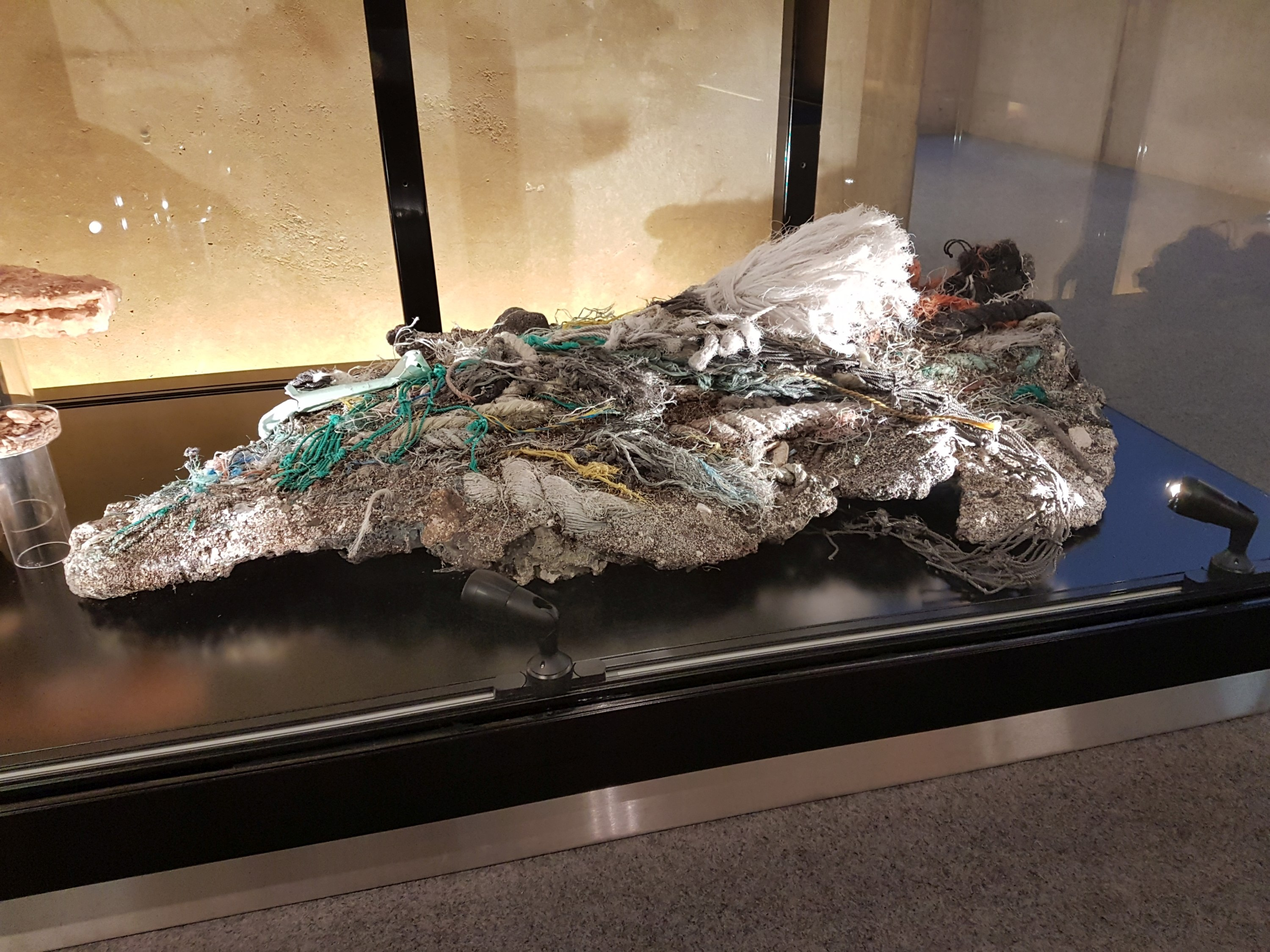 The Plastiglomerate from Kamilo Beach, Hawai'i, displayed at Museon in The Hague, The Netherlands. The exhibition is called One Planet and it is dedicated to the Sustainable Development Goals of the United Nations.